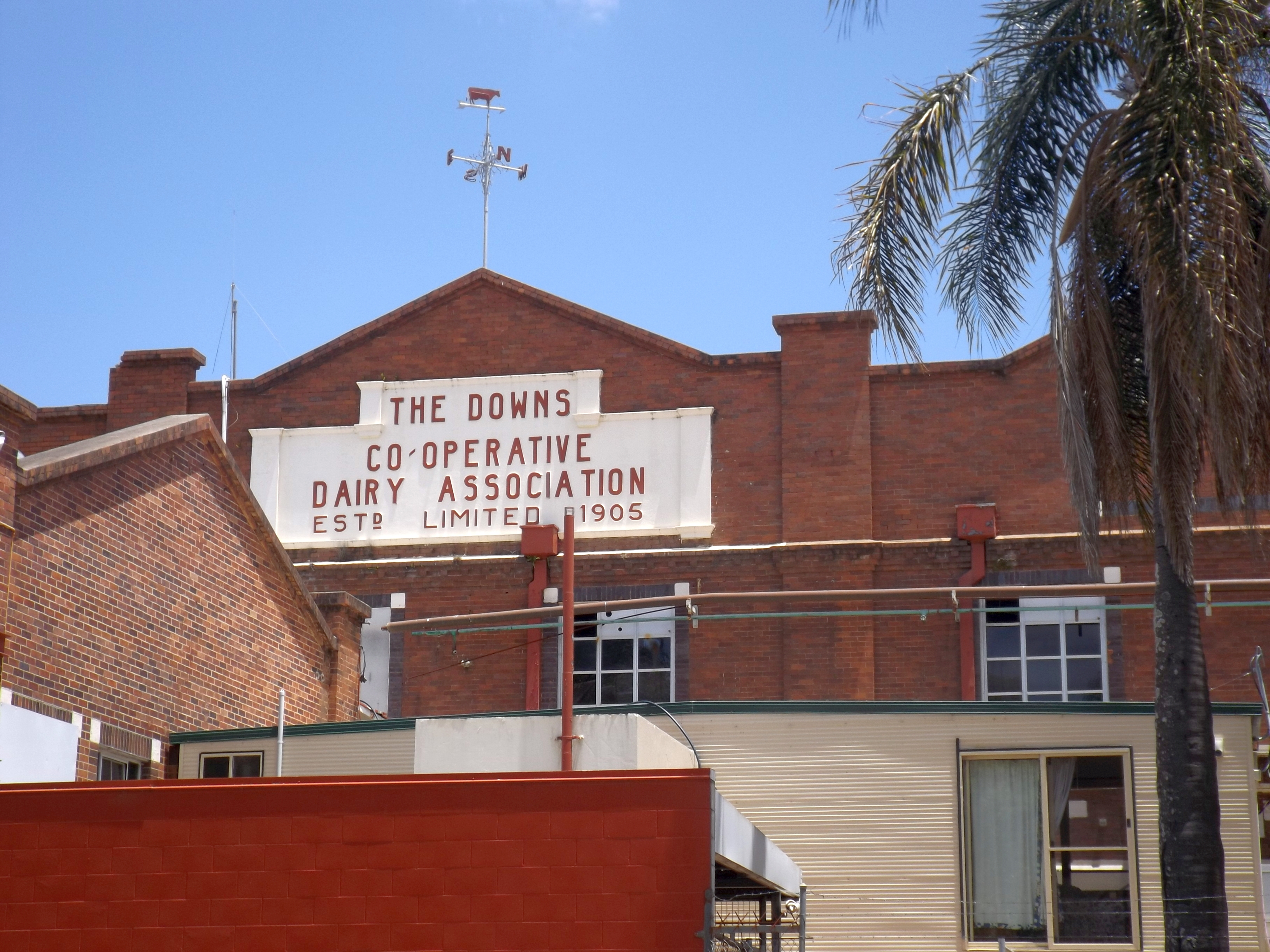 Photo of main building at the Downs Co-operative Dairy Association Limited Factory in Newtown, Toowoomba, Queensland, Australia.